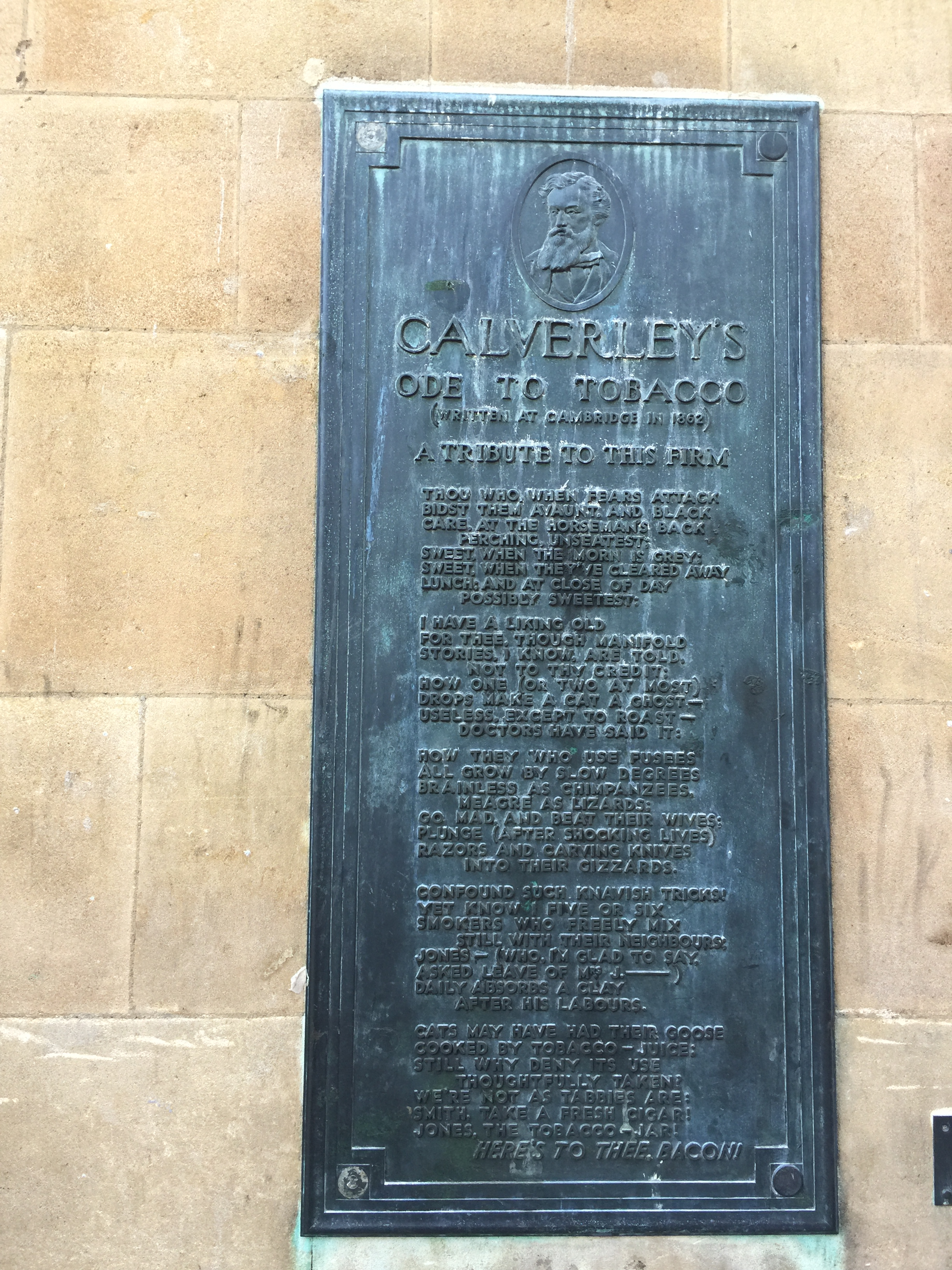 Calverley's Ode To Tobacco. Plaque on the side of a shop in Rose Crescent in Cambridge (UK), a tribute to Bacon's Tobacconists, who remained in the same building until 1983. It now incongruously adorns a French Connection boutique. Calverley's Ode To Tobacco (Written in Cambridge in 1862) A Tribute to This Firm Thou who, when fears attack, Bidst them avaunt, and Black Care, at the horseman's back Perching, unseatest; Sweet, when the morn is grey; Sweet, when they've cleared away Lunch; and at close of day Possibly sweetest: I have a liking old For thee, though manifold Stories, I know, are told, Not to thy credit; How one (or two at most) Drops make a cat a ghost - Useless, except to roast - Doctors have said it: How they who use fusees All grow by slow degrees Brainless as chimpanzees, Meagre as lizards; Go mad, and beat their wives; Plunge (after shocking lives) Razors and carving knives Into their gizzards. Confound such knavish tricks! Yet know I five or six Smokers who freely mix Still with their neighbours; Jones - (who, I'm glad to say, Asked leave of Mrs. J. -) Daily absorbs a clay After his labours. Cats may have had their goose Cooked by tobacco-juice; Still why deny its use Thoughtfully taken? We're not as tabbies are: Smith, take a fresh cigar! Jones, the tobacco-jar! Here's to thee, Bacon!